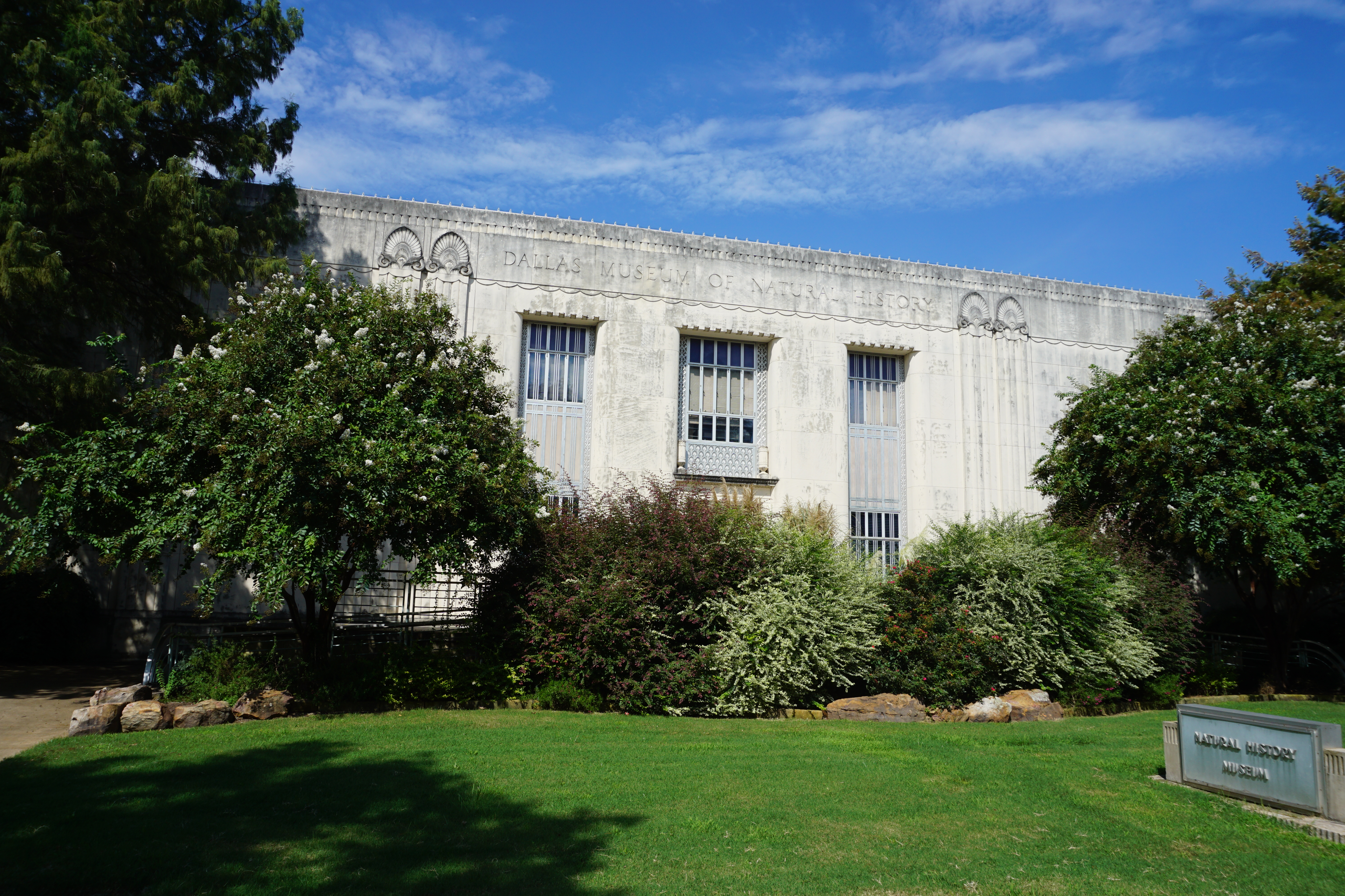 The Natural History Museum at Fair Park in Dallas, Texas (United States).